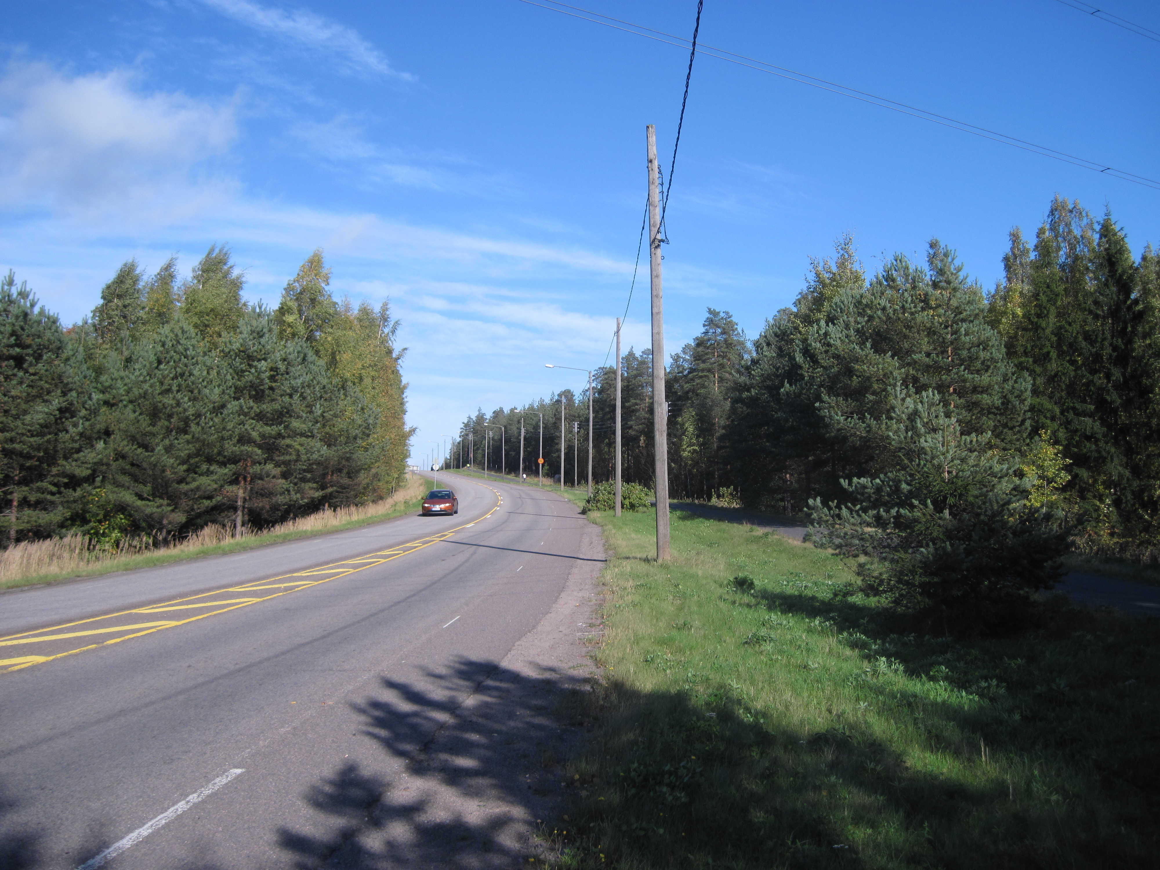 Mätäkivenmäki and the old road from Helsinki to Tuusula, Finland